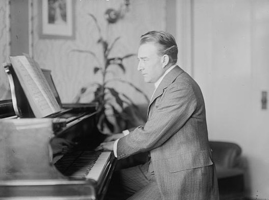 Andreas Dippel (1866 - 1932), German tenor